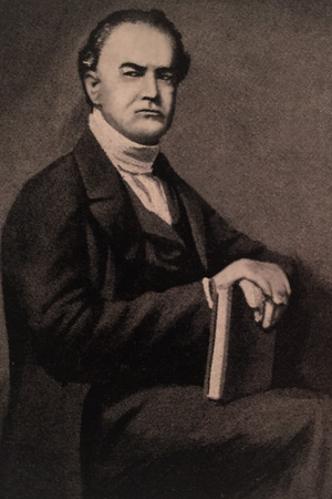 A daguerreotype of Mayor Joe Barker early into his term as mayor of Pittsburgh ca. 1850.